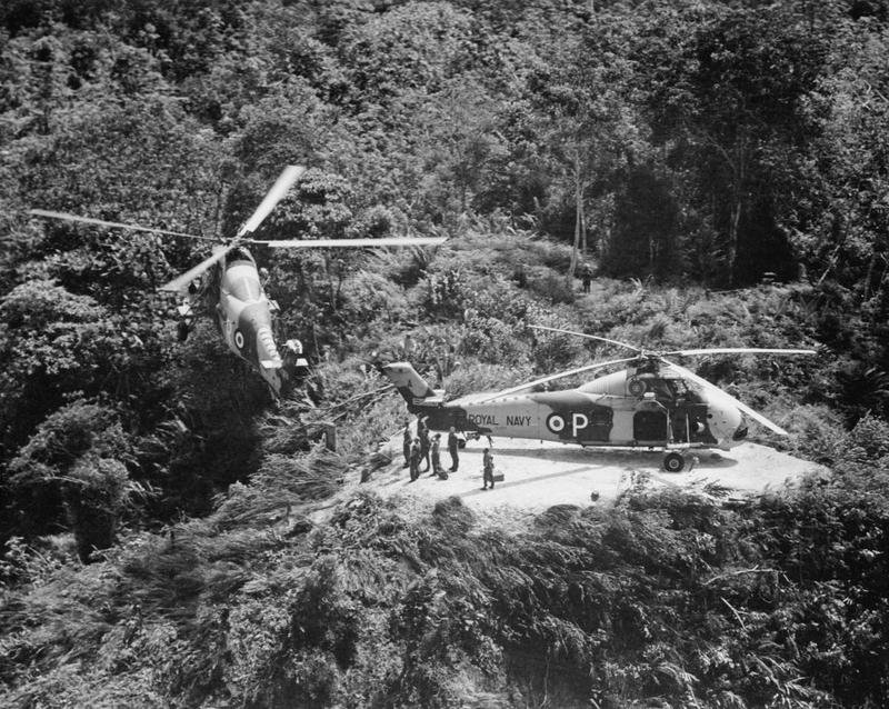 Royal Navy Wessex Helicopters Probably in the 1960s Westland Whirlwinds of Naval Air Squadron 848 drop a troop of Royal Marines to establish a landing zone in the Borneo jungle.